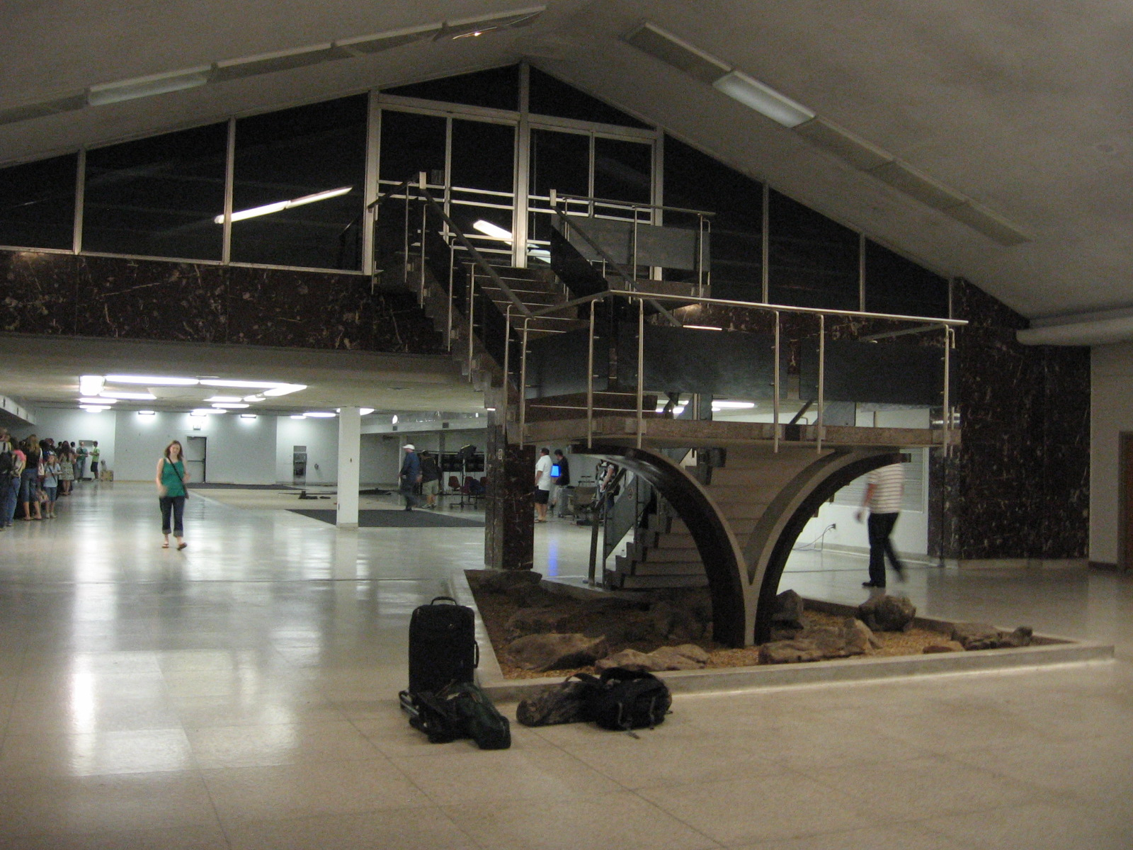 The interior lobby of the 1962 Birmingham Air Terminal at Birmingham International Airport viewed from the front doors. This terminal served passengers until the current commercial terminal was constructed and now serves various administrative and support functions. The former ticketing area is in the background of the photo. Photo taken during filming of Contemporary Christian artist Brandon Heath's music video for Give Me Your Eyes.